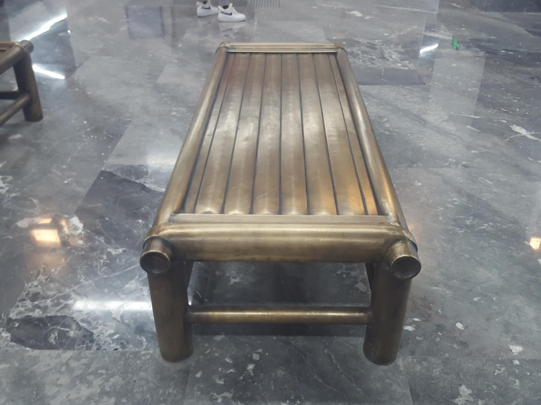 Hanzheng Street Station, Wuhan Metro